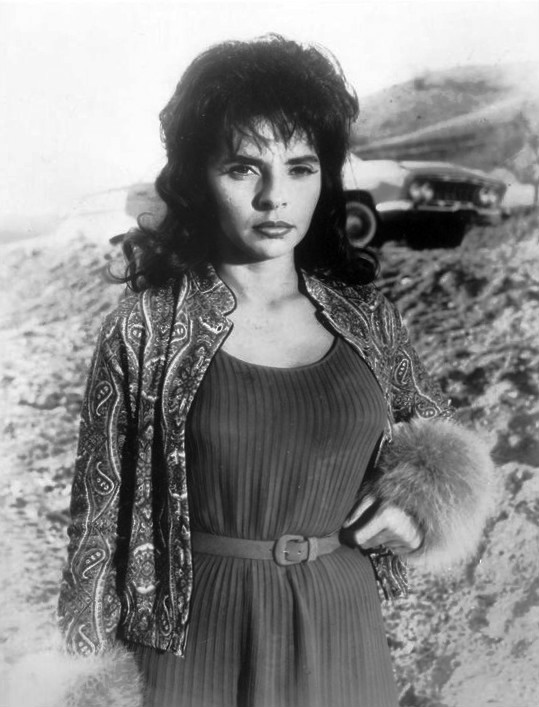 Photo of Madlyn Rhue from the television program Bus Stop.